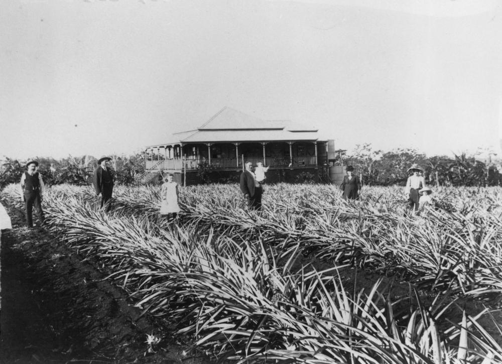 Pineapple plantation at Fred Zerner's farm, Cleveland, 1907 Family members are standing amongst the pineaplles in front of their homestead.